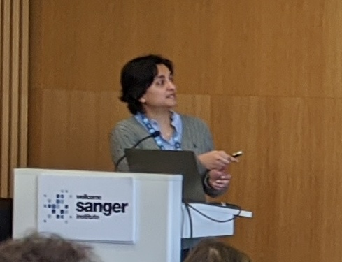 Professor Muzlifah Haniffa presenting at the Human Cell Atlas WSSS face to face meeting at Wellcome Genome Campus, Sanger Institute, Hinxton, Cambridge (20th January 2020)